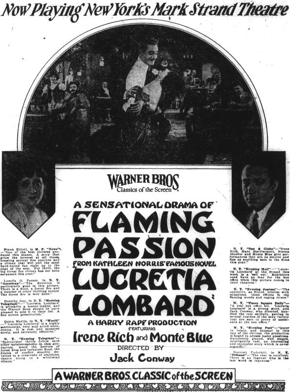 Advertisement for the American drama film Lucretia Lombard (1923) under its alternative title Flaming Passion, on page 27 of the December 20, 1923 Variety.